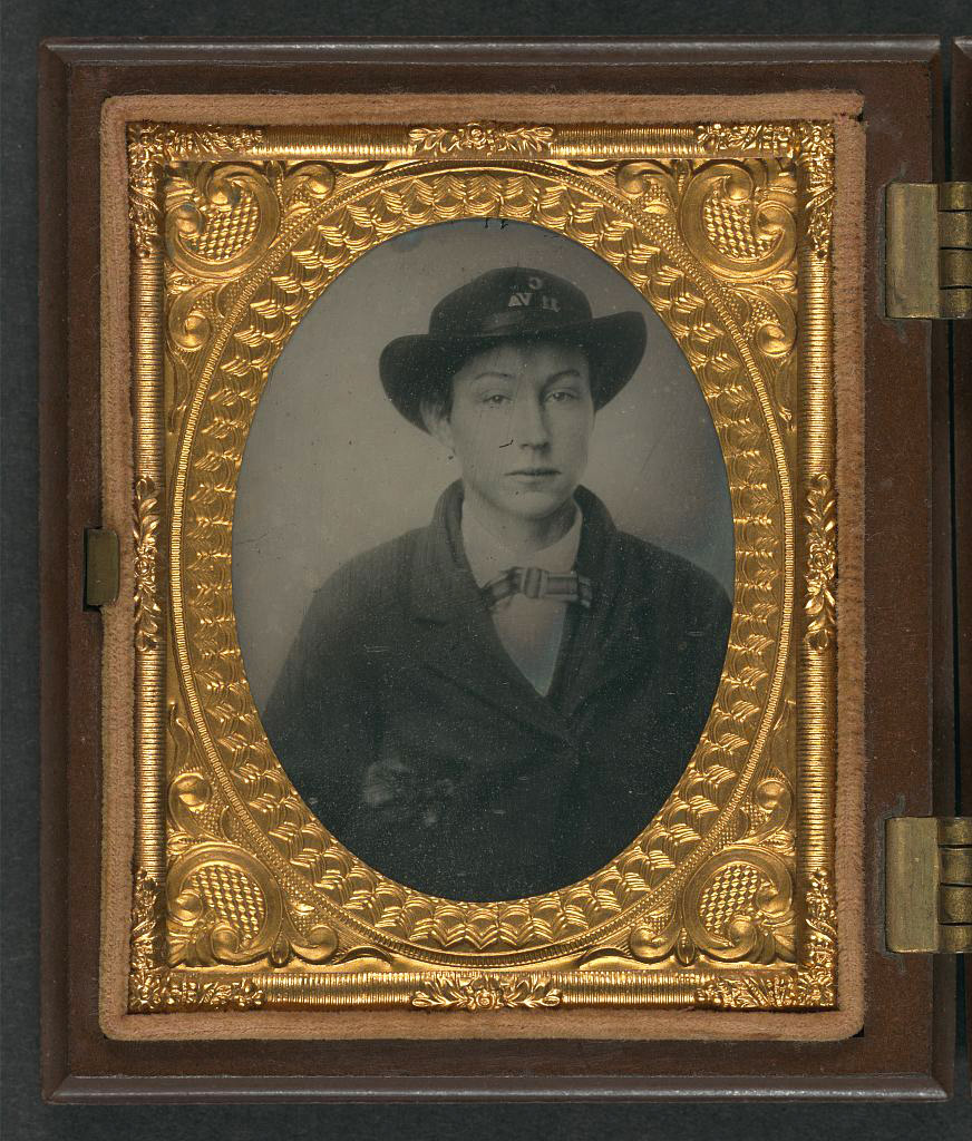 [Unidentified young soldier in Confederate uniform with Company C, 11th Virginia Regiment slouch hat] [between 1861 and 1865] 1 photograph : ninth-plate tintype, ; 8.8 x 6.6 cm (case) Notes: Title devised by Library staff. Case: Berg, no. 3-341. Gift; Tom Liljenquist; 2010; (DLC/PP-2010:105). Purchased from: The Antique Center, Gettysburg, Pennsylvania, 2002. Subjects: Confederate States of America.--Army.--Virginia Infantry Regiment, 11th--People. Soldiers--Confederate--1860-1870. Military uniforms--Confederate--1860-1870. Youth--1860-1870. United States--History--Civil War, 1861-1865--Military personnel--Confederate. Format: Portrait photographs--1860-1870. Tintypes--1860-1870. Repository: Library of Congress, Prints and Photographs Division, Washington, D.C. 20540 USA, Part Of: Ambrotype/Tintype filing series (Library of Congress) (DLC) 2010650518 Liljenquist Family collection (Library of Congress) (DLC) 2010650519 More information about this collection is available at Persistent URL: Call Number: AMB/TIN no. 2294